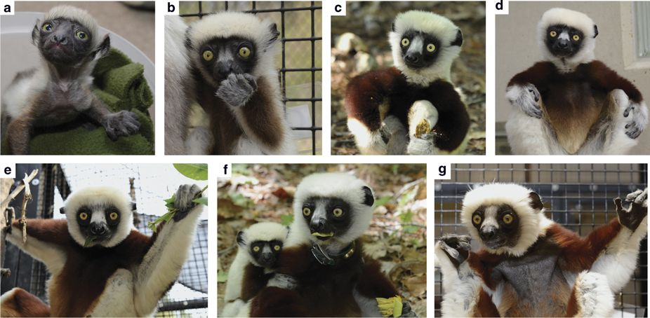 Coquerel's sifaka (Propithecus coquereli) life stages, images taken at Duke Lemur Center: (a) newborn; (b) infant; (c) juvenile; (d) yearling; (e) young adult; (f) reproductive adult and (g) old adult Propithecus coquereli.